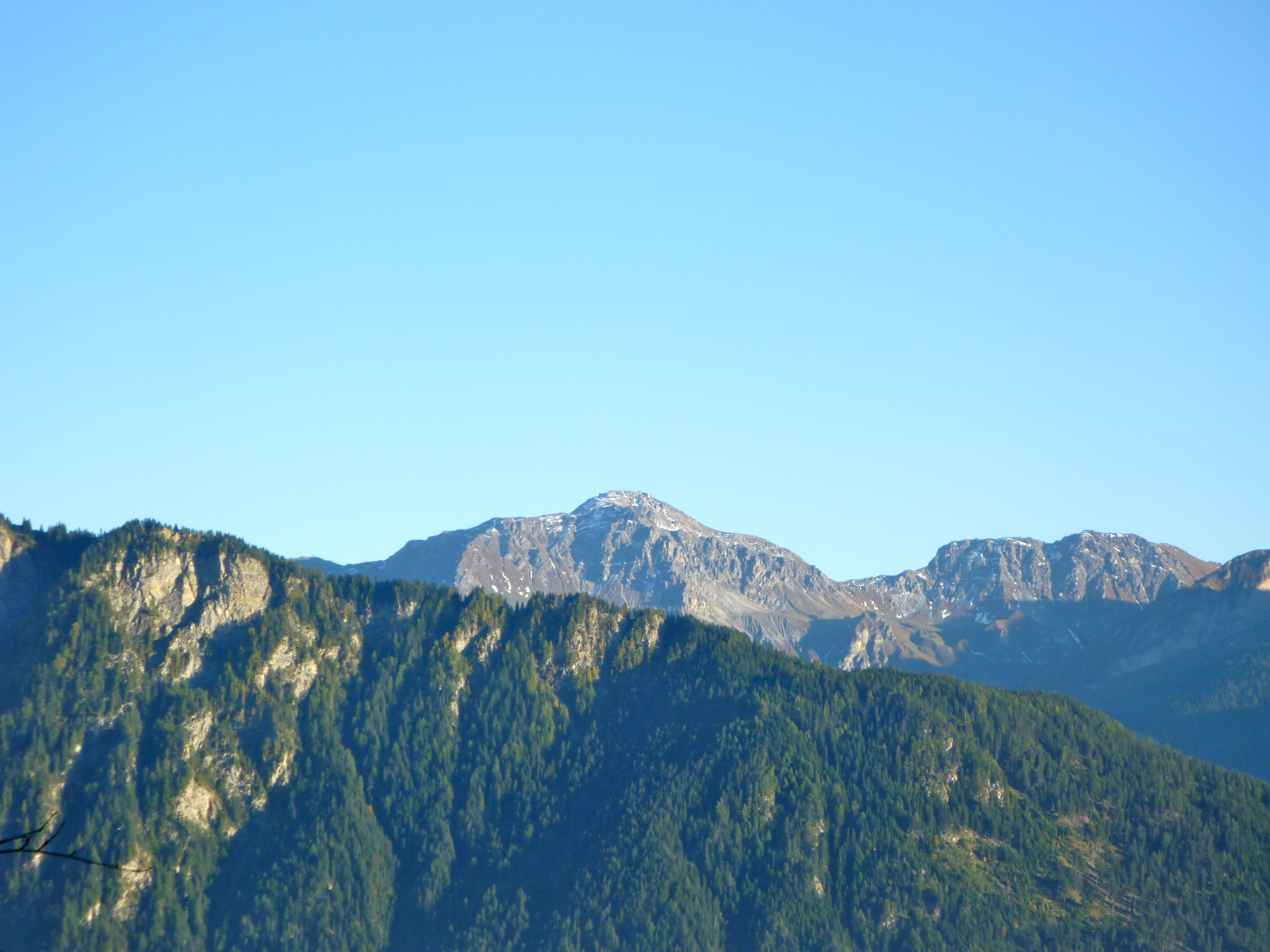 Weisshorn at Arosa/Switzerland (centre)